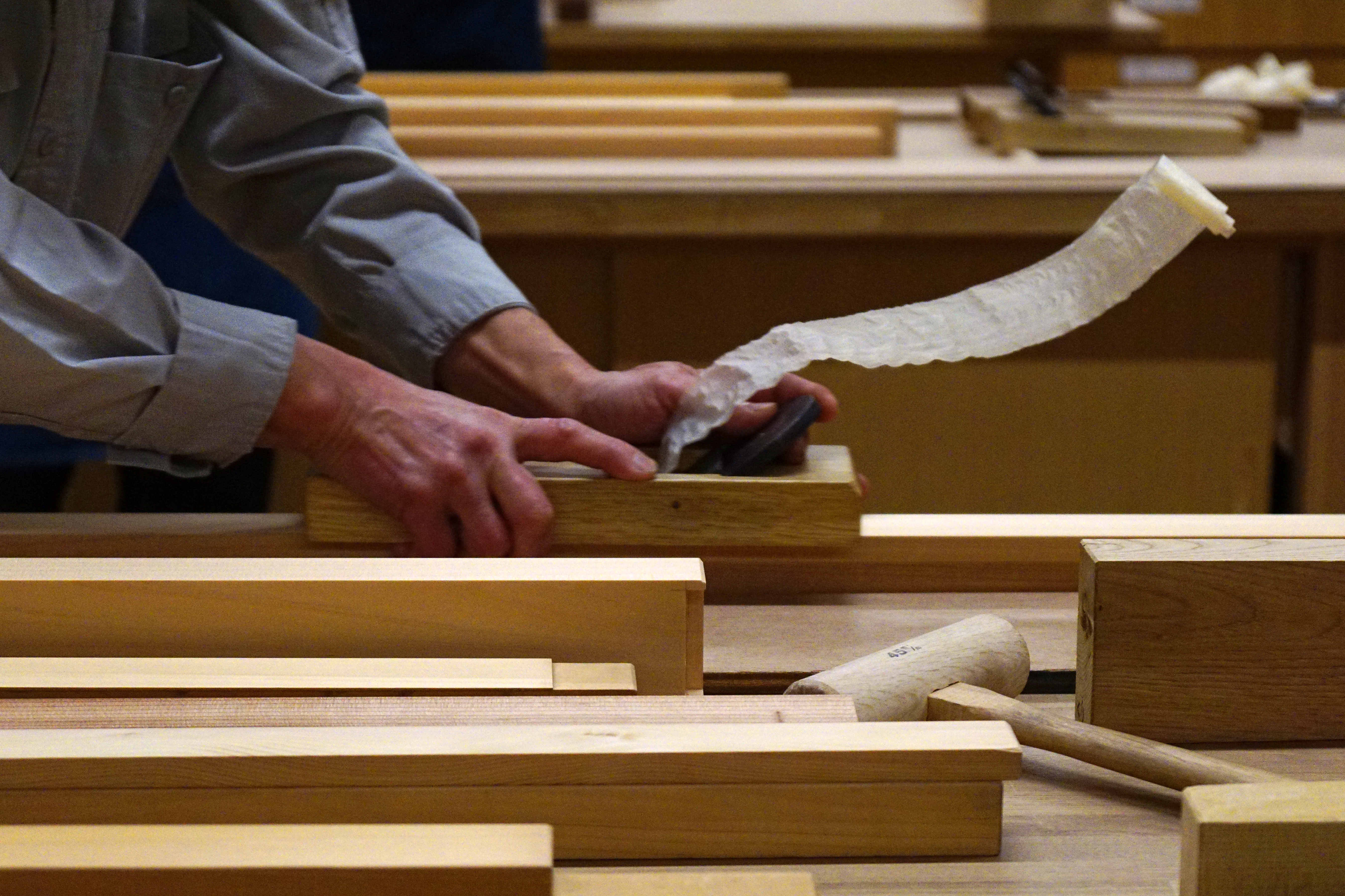 Takenaka Carpentry Tools Museum in Kobe, Hyogo prefecture, Japan.